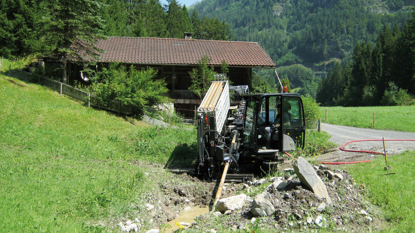 HDD fluid-assisted drill rig GRUNDODRILL